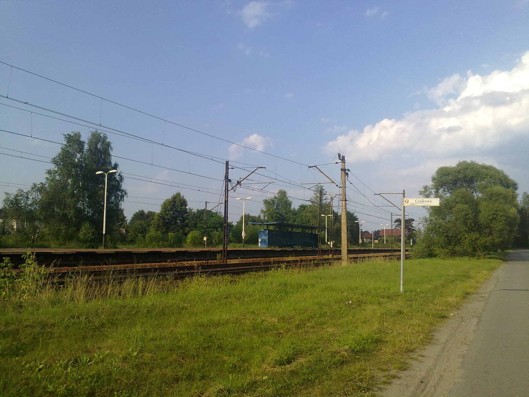 Railway station in Dąbrowa Górnicza - Sikorka, Poland